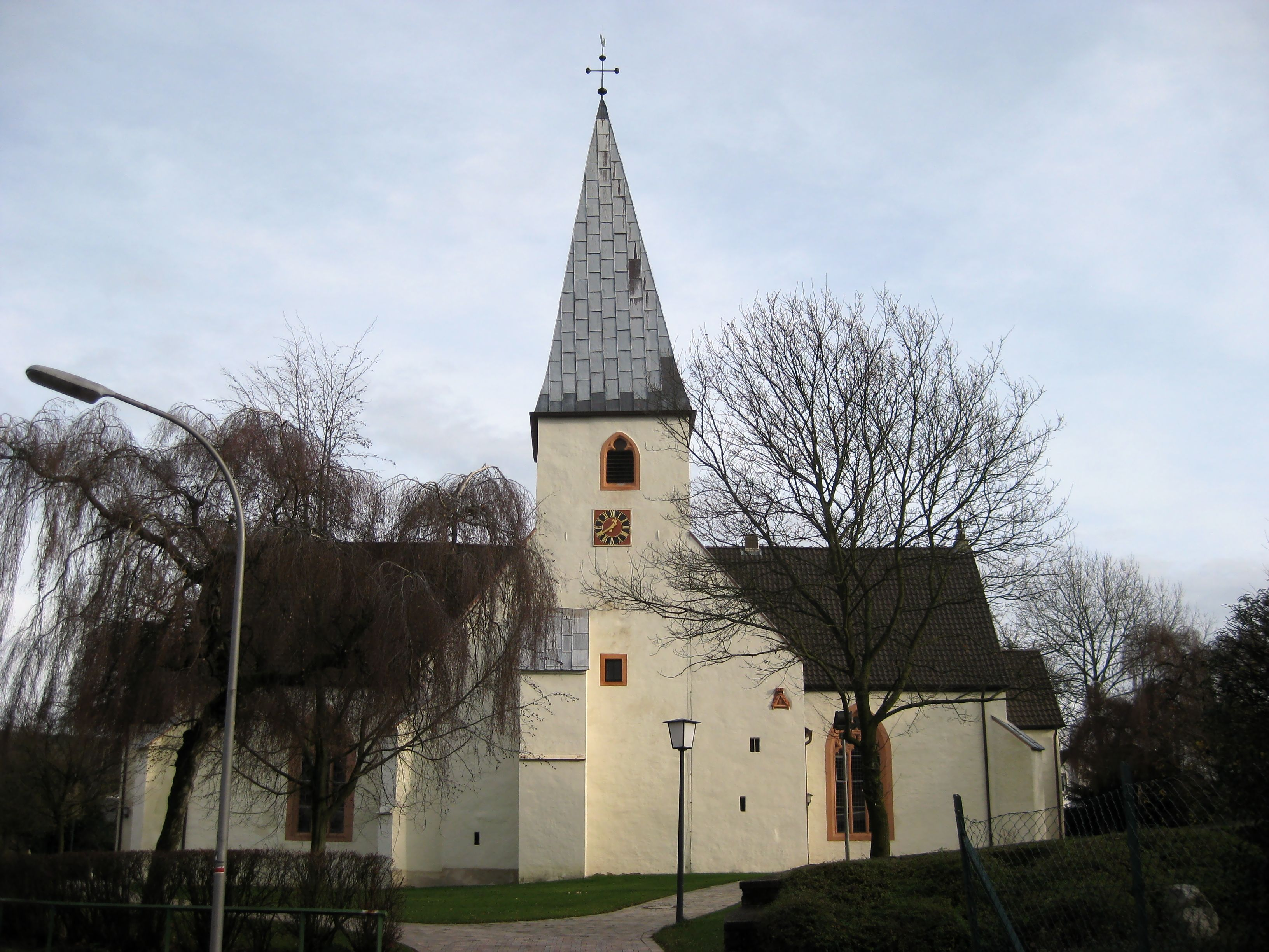 Reformed parish church “Pauluskirche” in Kalletal-Hohenhausen